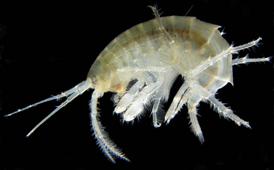 Gammarus roeseli. Locality: Czech Republic, Moravia, Olomouc, Mlýnský potok near inflow to the Morava river.